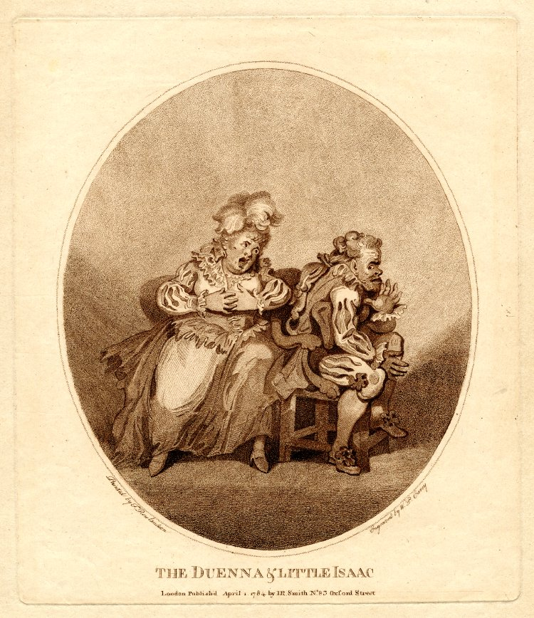 Scene from the opera Sardu: The Duenna, libretto by Richard Brinsley Sheridan, with actors identified as John Quick as Little Isaac, and Jane Green as the Duenna.